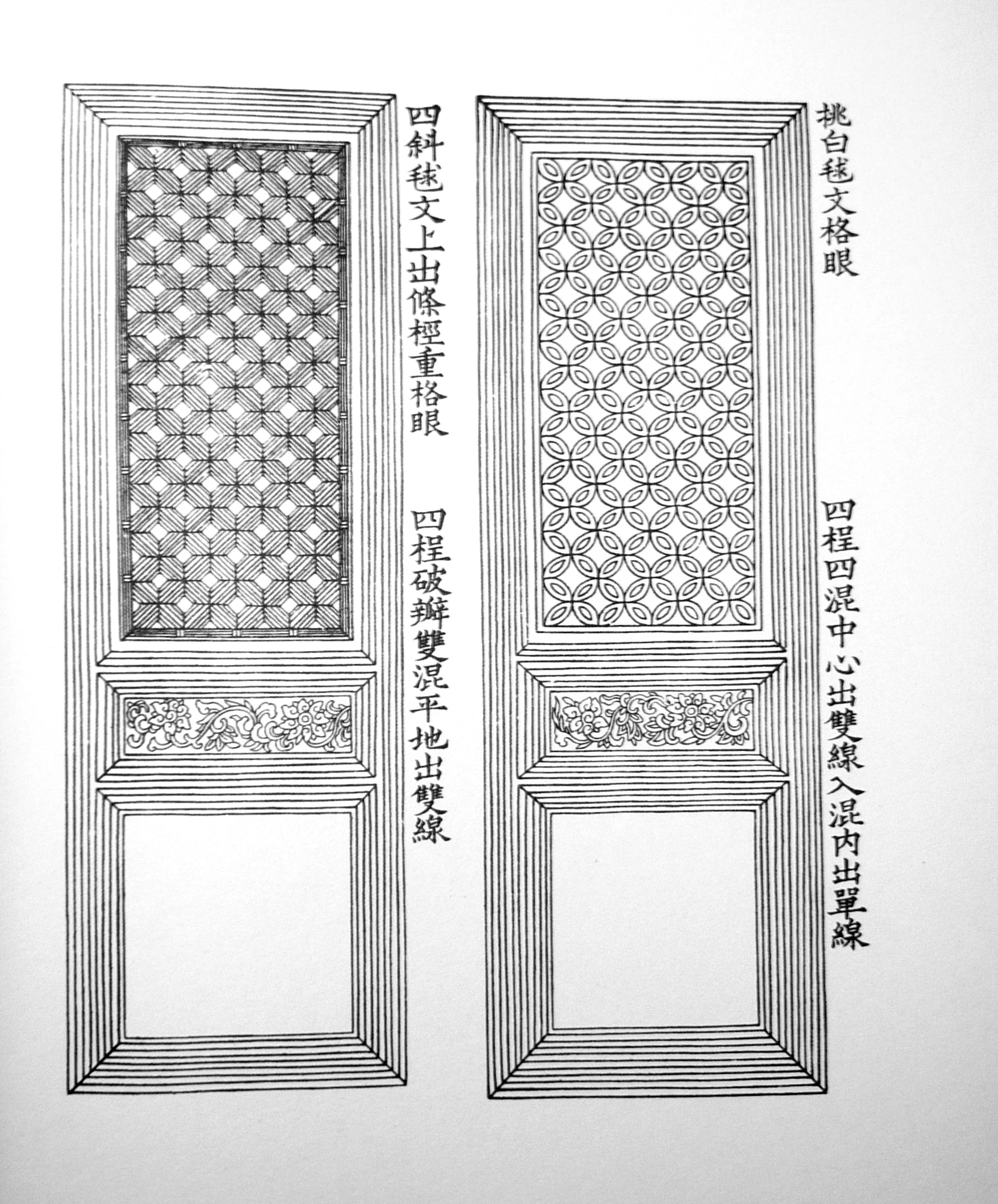 Yingzao Fashi grid door style first class